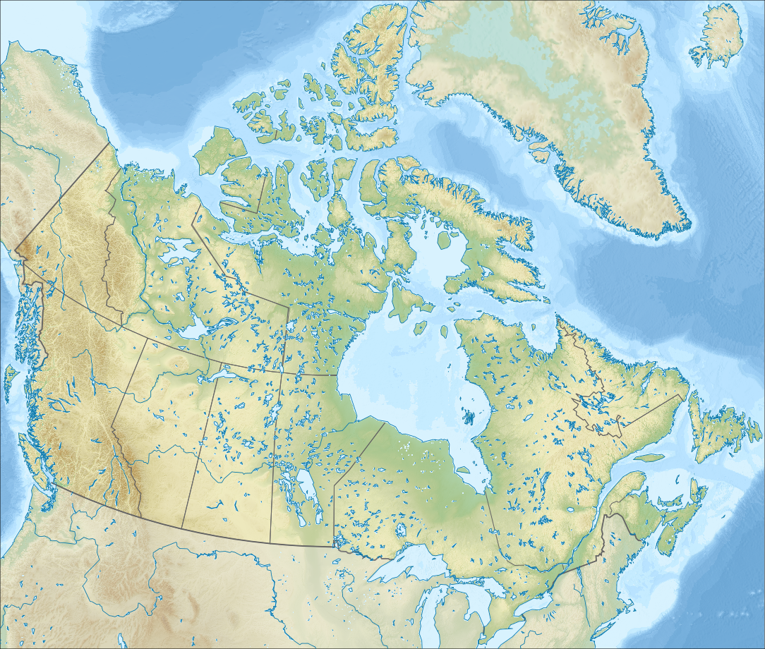 Relief map of Canada. Projection: Lambert Conformal Conic Projection lon0 = -27° lat0 = 69° lat1 = 51° lat2 = 45° Projection/coords for GMT: -Jl-95/49/49/77/1:29350000 -R-121.36/38.29/-11.5/63.0r